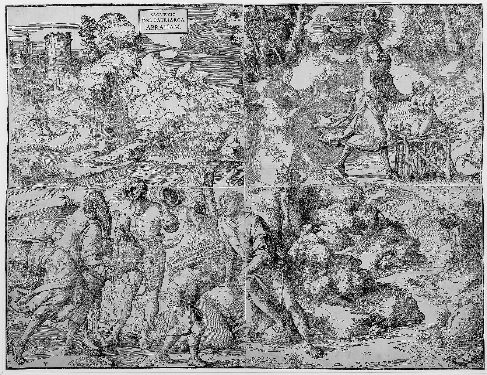 The Sacrifice of Abraham Ugo da Carpi (1502–1532), After Titian Museum of Fine arts Boston